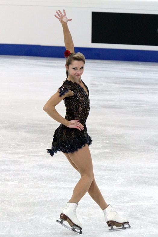 Ksenia Makarova at the 2011 European Figure Skating Championships